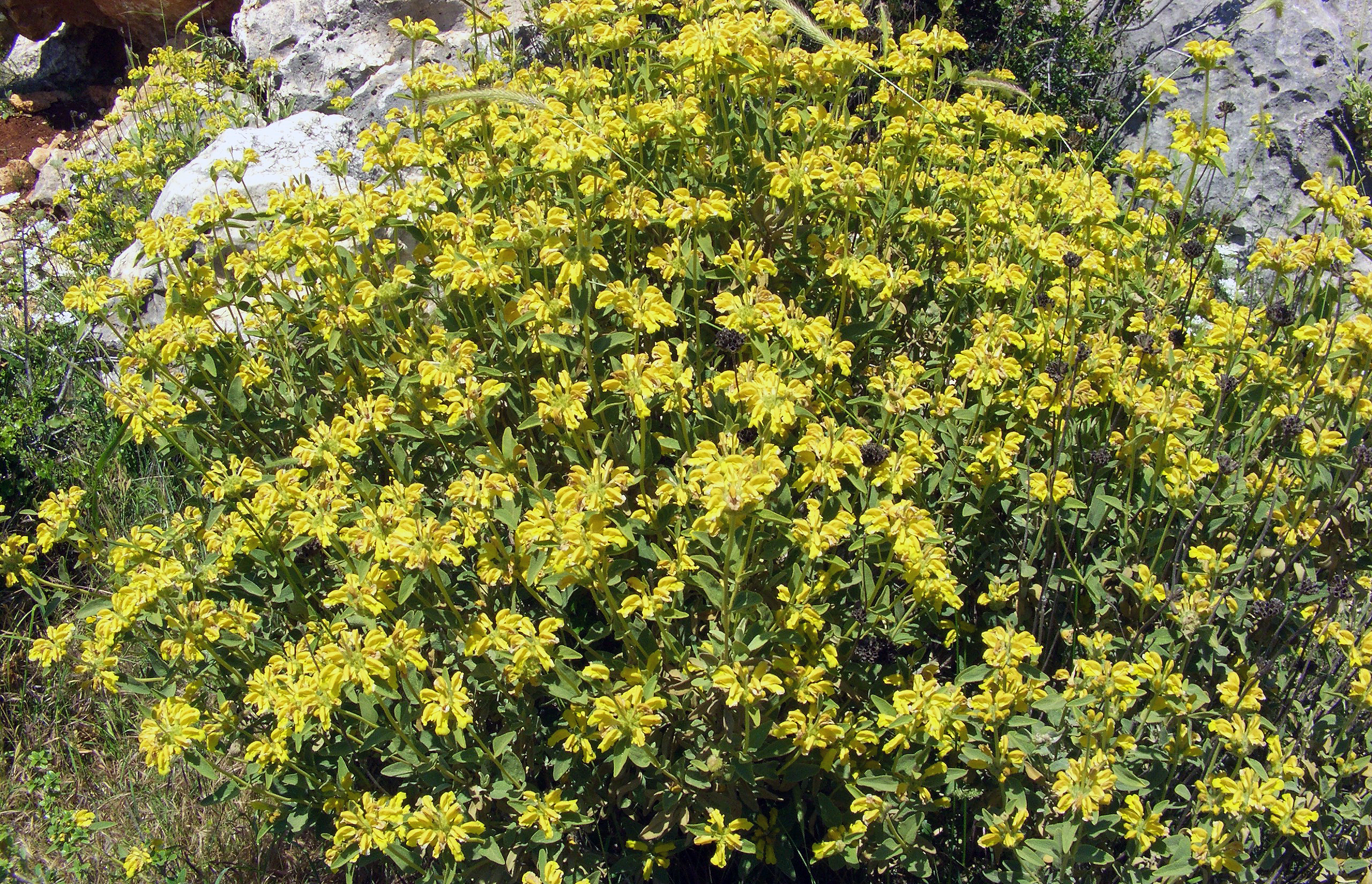 Syrian sage (Phlomis syriaca). Erdemli, Mersin - Turkey.